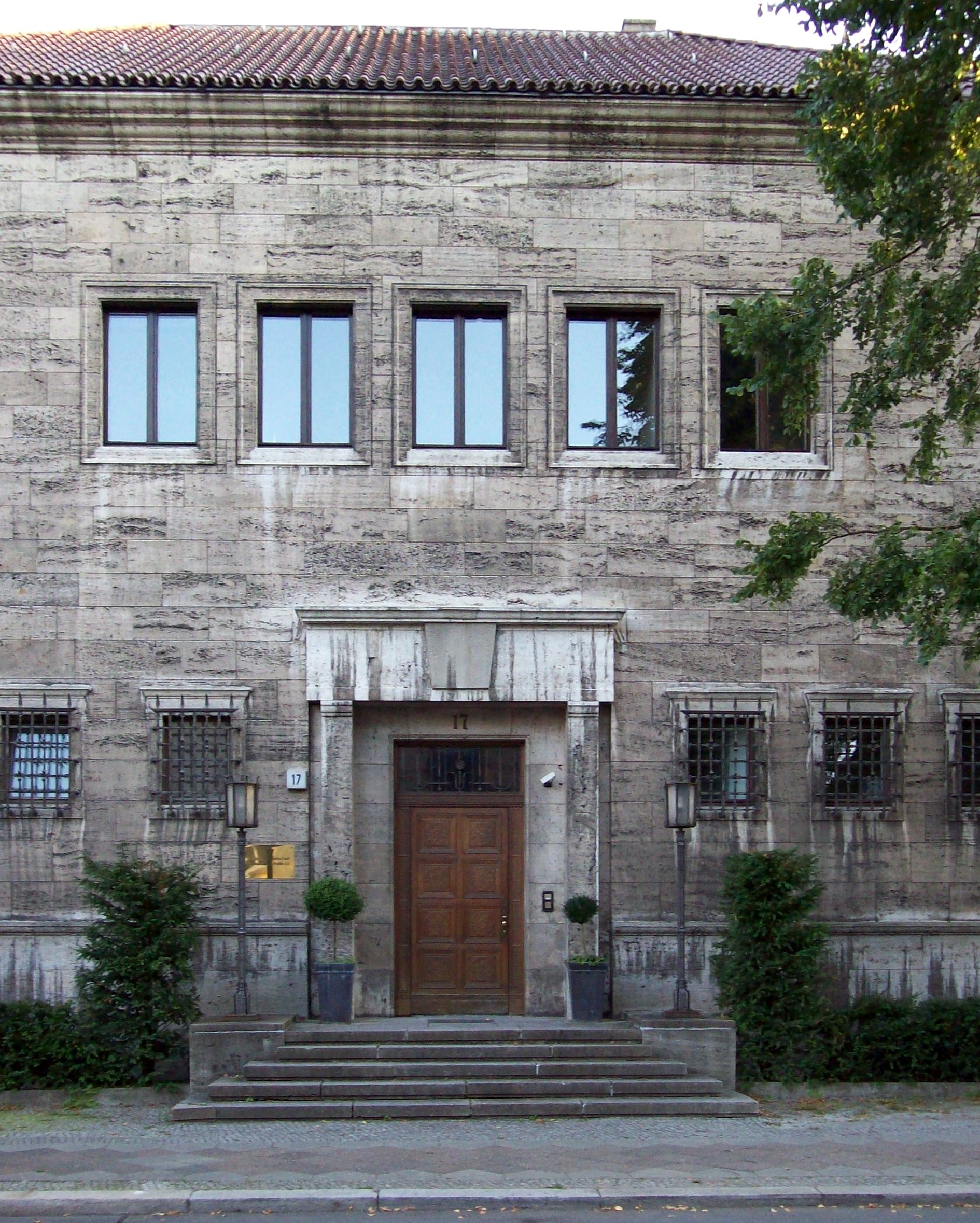 Former diplomatic mission of Yugoslavia in Berlin, entrance